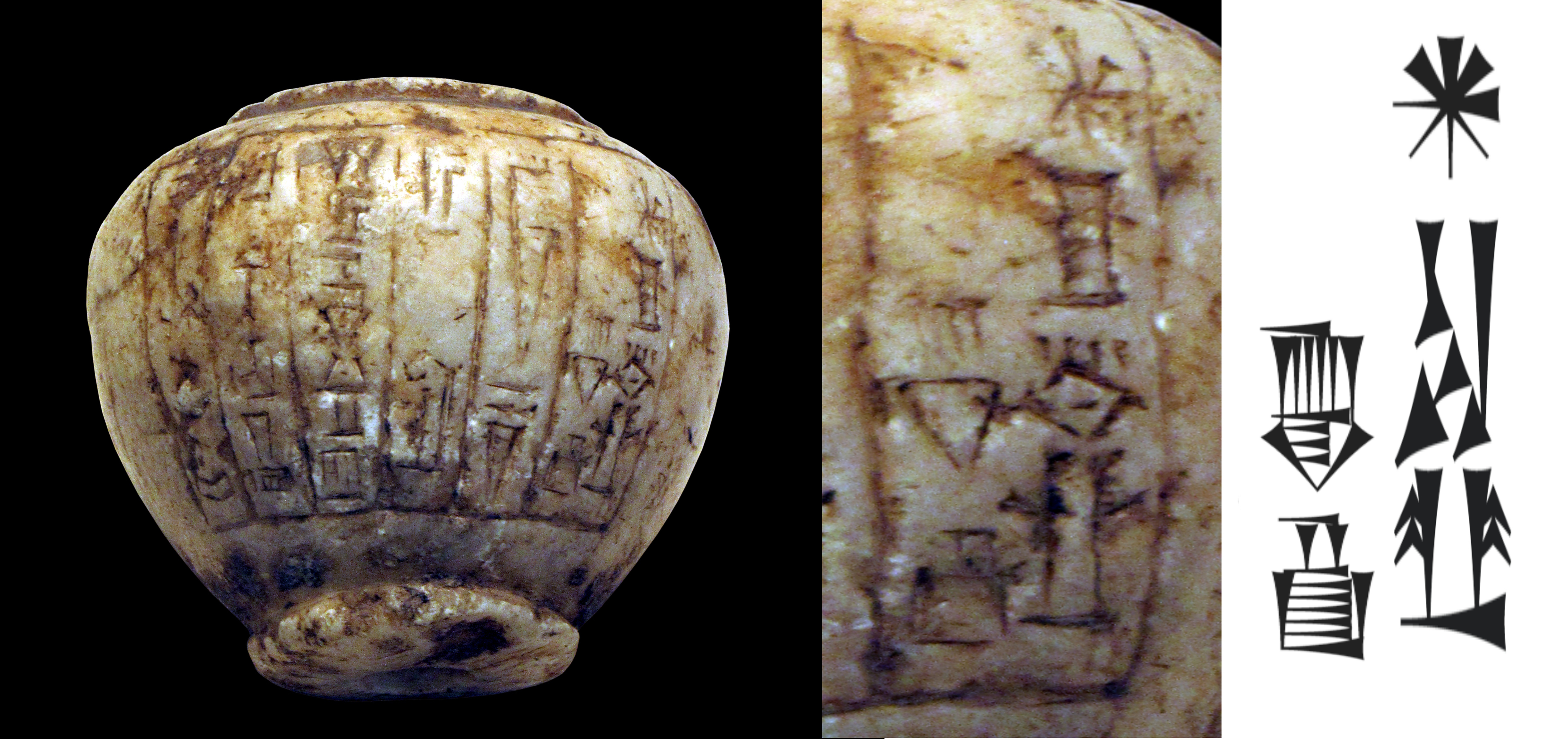 Mace dedicated to Gigamesh-AO 3761 with transcription of the name Gilgamesh